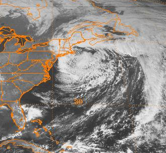 Satellite image of a powerful extratropical storm south of Atlantic Canada